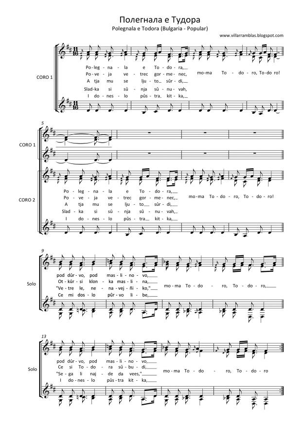 Sheet music of the bulgarian song Polegnala e Todora.